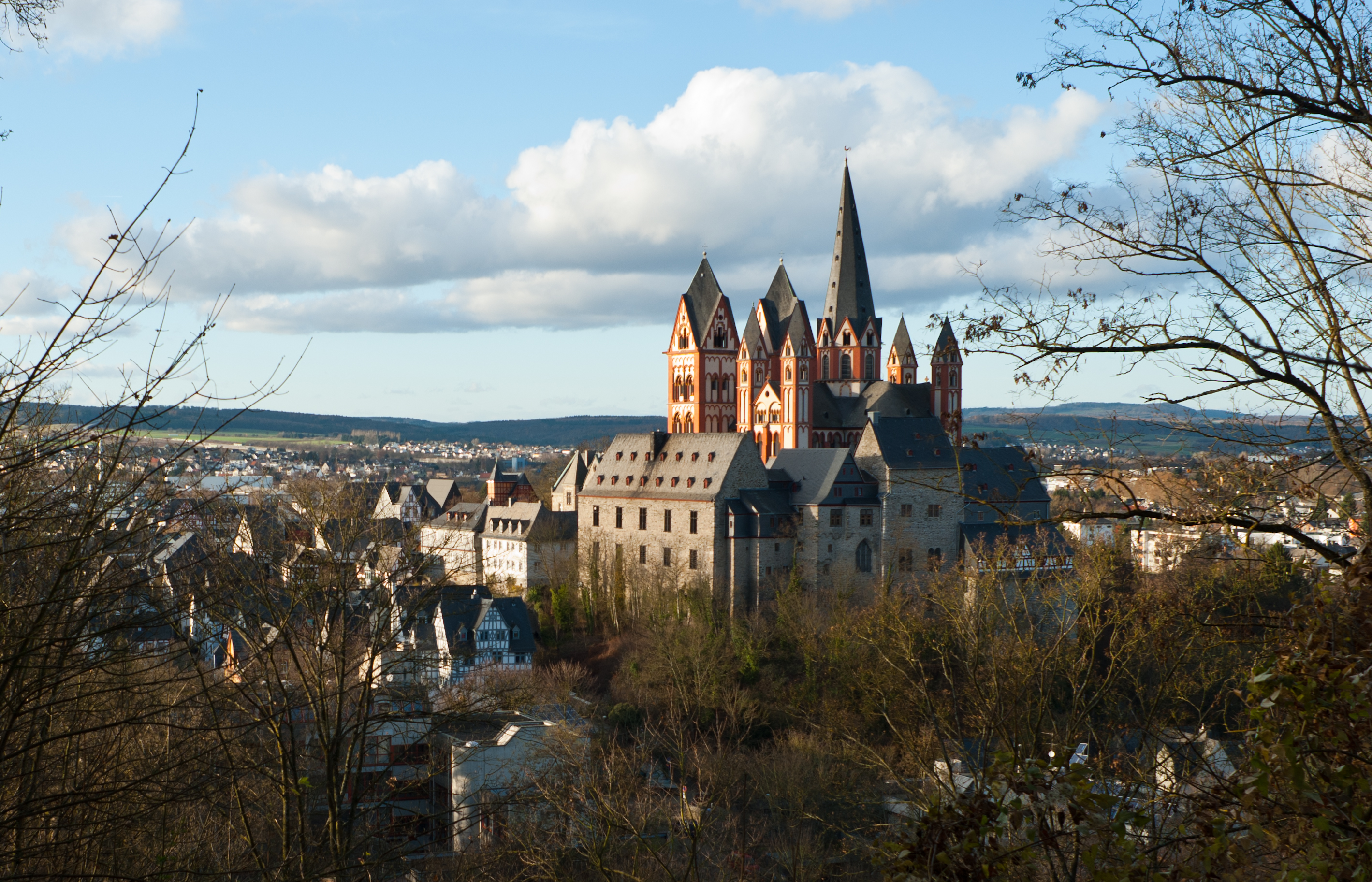 Limburg with cathedral and castle seen from south-east